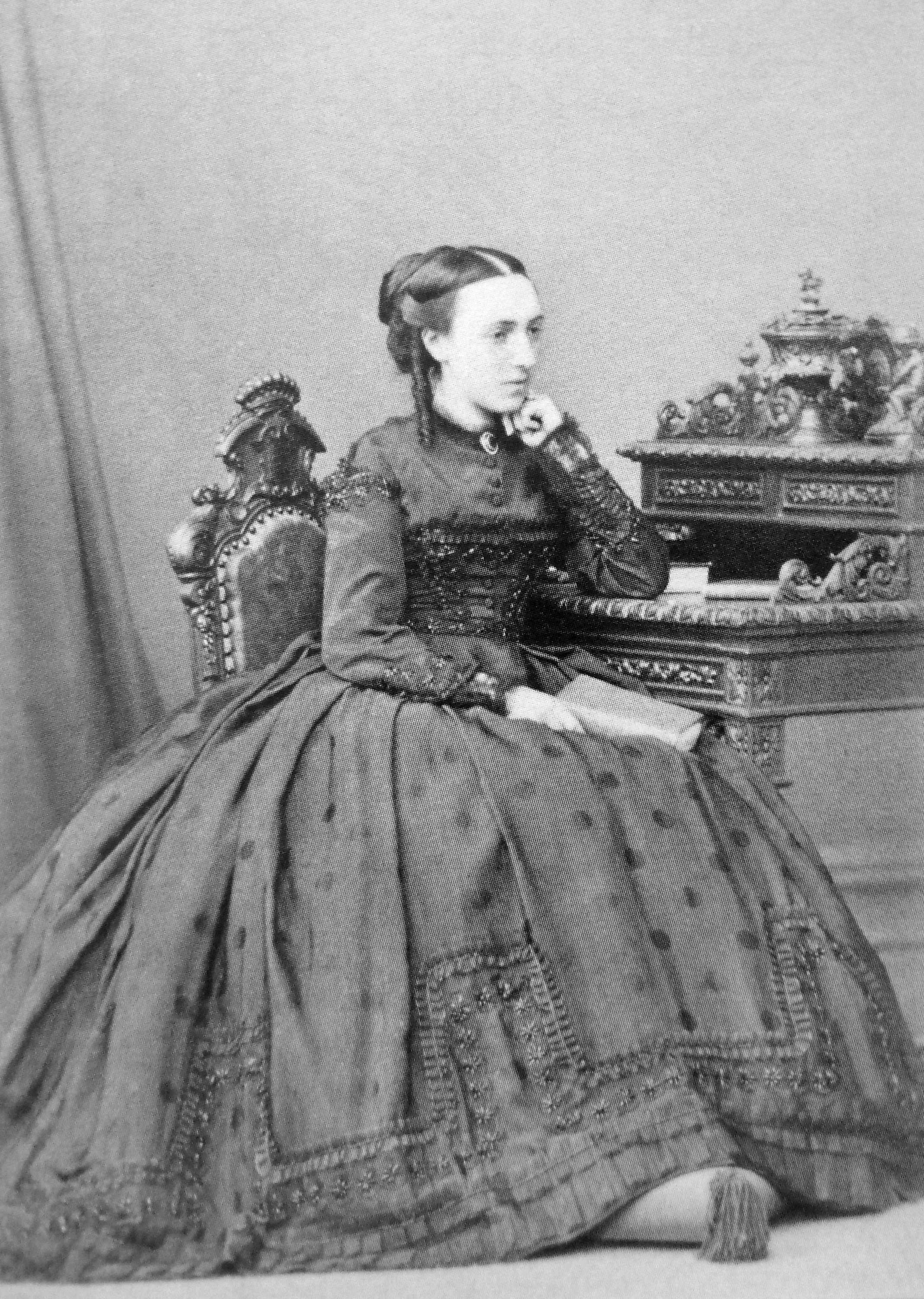 Cecilie Auguste, Princess and Margravine of Baden, Grand Duchess Olga Feodorovna of Baden